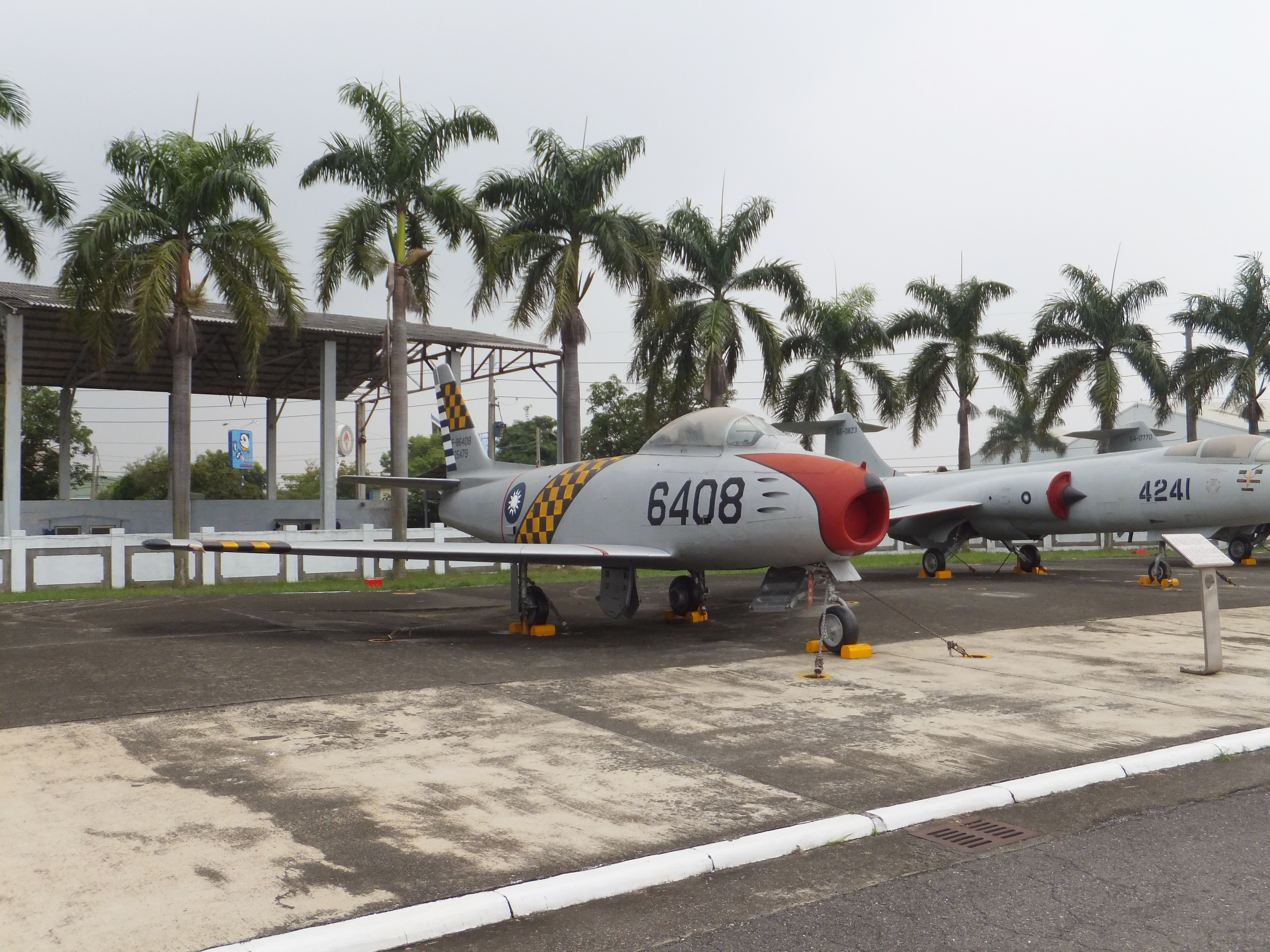 A F-86 on display at R.O.C. Air Force Academy in Kaohsiung, Taiwan. F-86 saw actions primarily in the 1950s and the first half of 1960s over Taiwan strait.